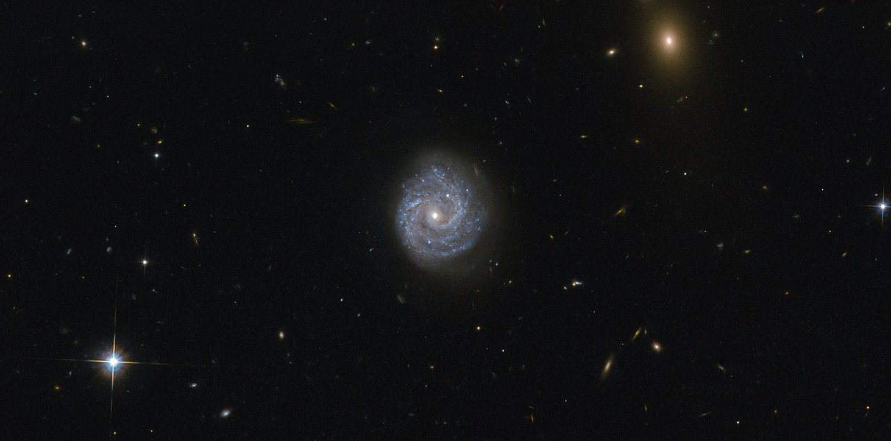 This image taken with the Advanced Camera for Surveys (ACS) onboard the NASA/ESA Hubble Space Telescope captures a galaxy in the Virgo constellation. This camera was installed in 2002, and its wide field of view is double that of its predecessor, capturing superb images with sharp image quality and enhanced sensitivity that can be seen here. The beautiful spiral galaxy visible in the centre of the image is catchily known as RX J1140.1+0307, and it presents an interesting puzzle. At first glance, this galaxy appears to be a normal spiral galaxy, much like the Milky Way, but first appearances can be deceptive! The Milky Way galaxy, like most large galaxies, has a supermassive black hole at its centre, but some galaxies are centred on lighter, intermediate-mass black holes. RX J1140.1+0307 is such a galaxy — in fact, it is centred on one of the lowest black hole masses known in any luminous galactic core. What puzzles scientists about this particular galaxy is that the calculations don’t add up. With such a relatively low mass for the central black hole, models for the emission from the object cannot explain the observed spectrum; unless there are other mechanisms at play in the interactions between the inner and outer parts of the accretion disc surrounding the black hole.